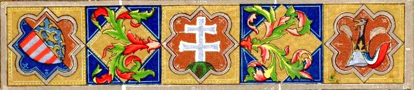 A Képes Krónika első lapjának alsó Anjou-ház királyi címerképei és sisakdísze